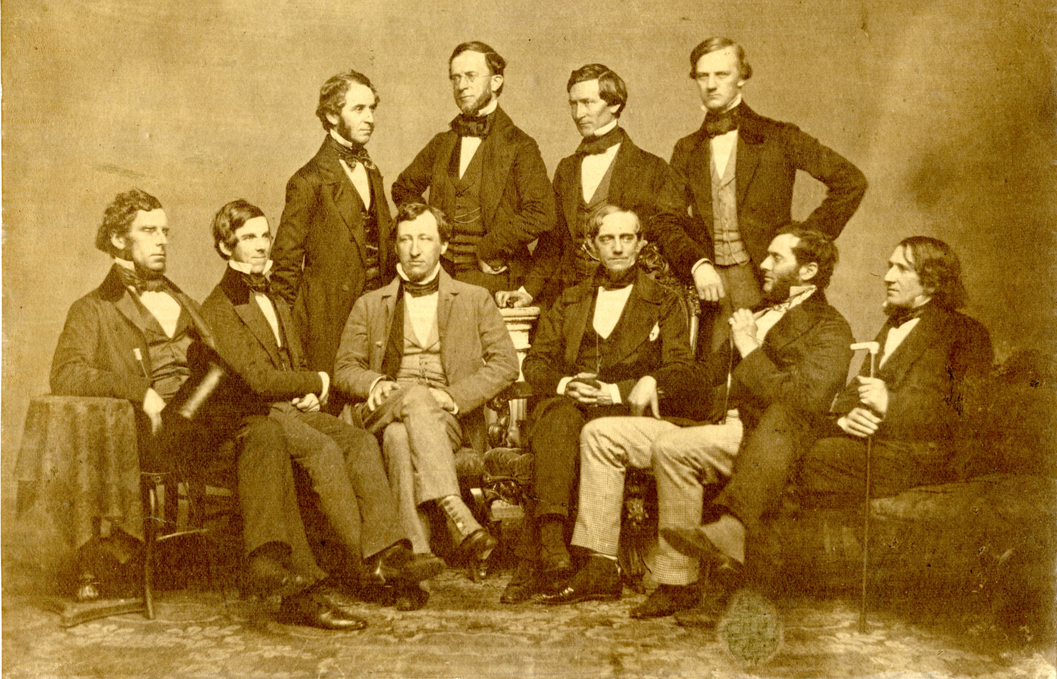 Members of the Boston Society for Medical Improvement, circa 1853. Standing: Charles Eliot Ware, Robert William Hooper, Le Baron Russell, and Samuel Parkman. Sitting: George Amory Bethune, Oliver Wendell Holmes, Samuel Cabot, Jonathan Mason Warren, William Edward Coale, and James Browne Gregerson. Reproduction from a image donated to the Boston Medical Library by Joseph Warren in 1949.